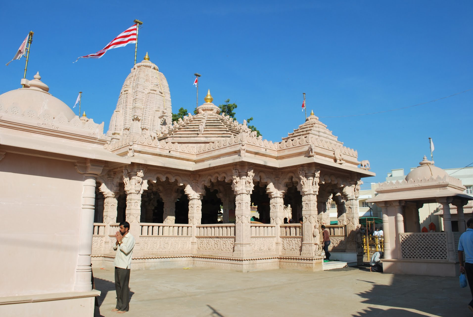 Ashapura Mata Tempe, Mata no Madh, Kachchh, Gujarat, India